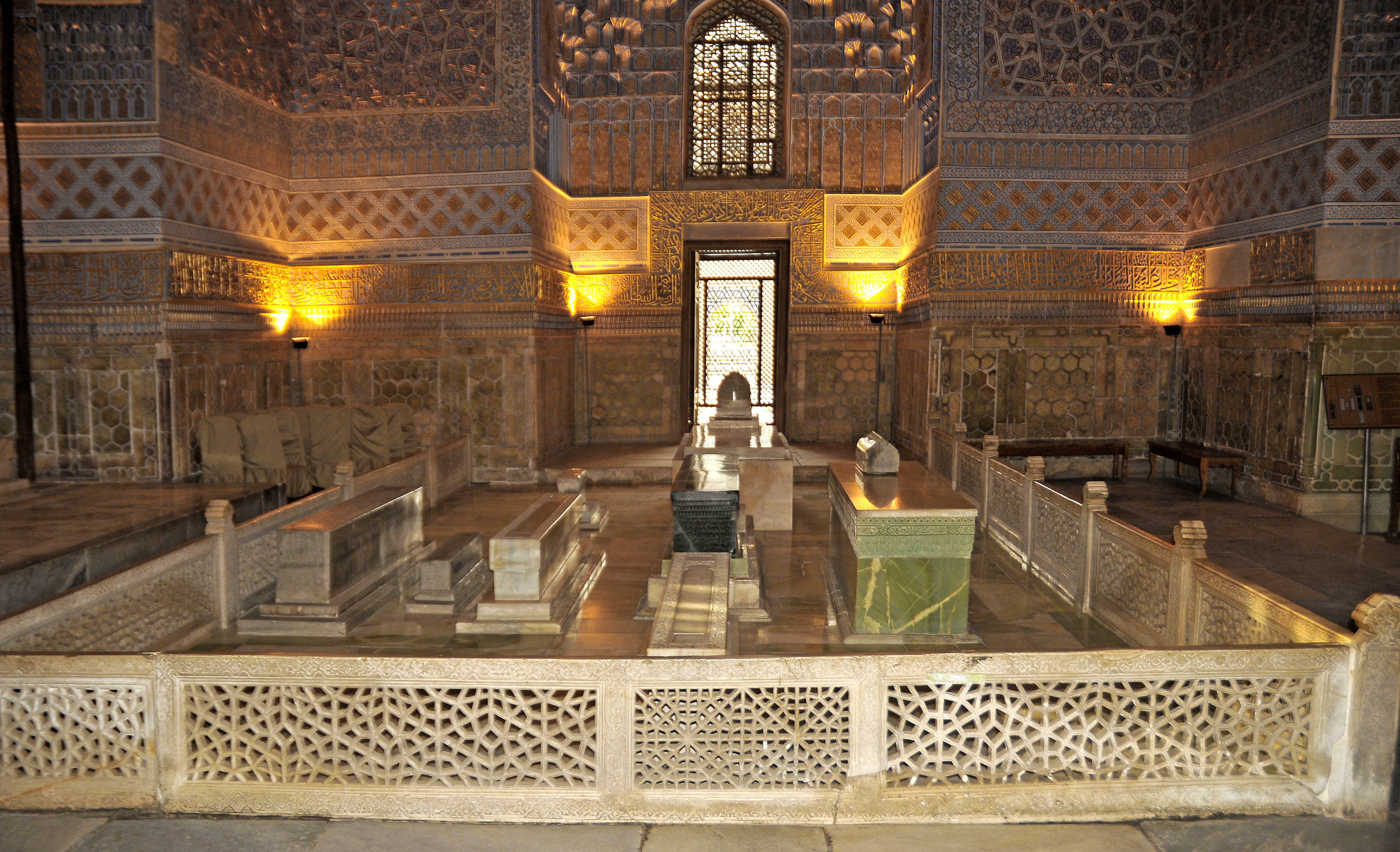 Inside the Timur Lang Mausoleum [Gur-e Amir]. Samarkand, Uzbekistan